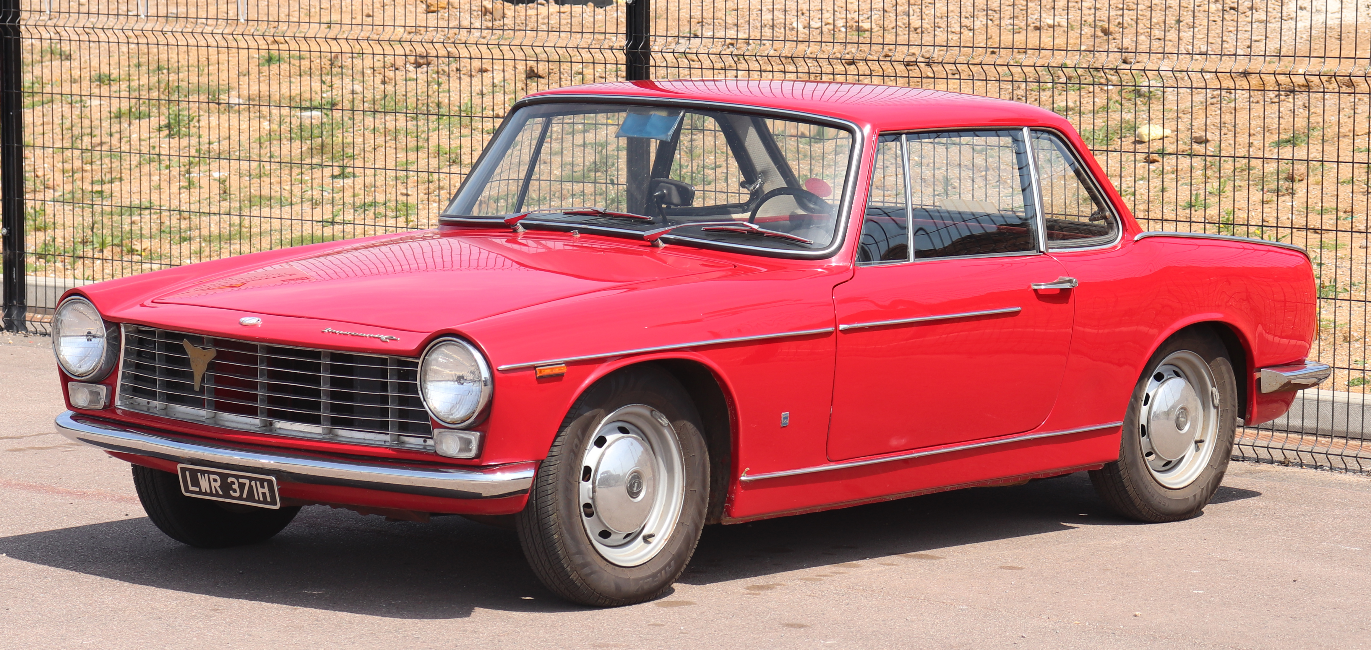 1969 Innocenti C 1.1 Taken at the British Motor Museum BMC & Leyland Show 2018, Gaydon